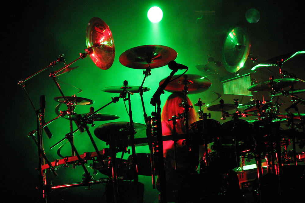 Jeff Plate Trans-Siberian Orchestra